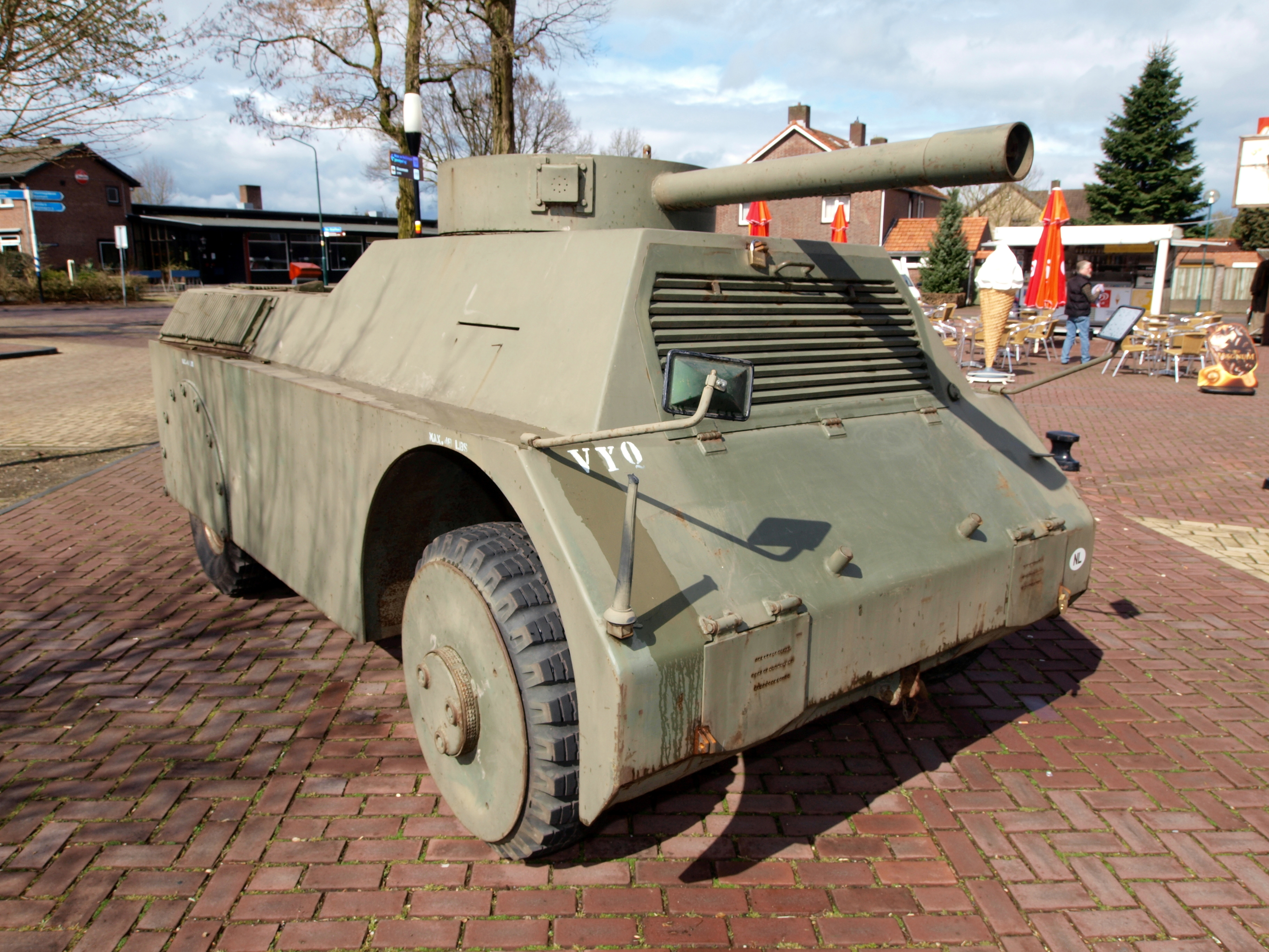 Photographed at the Marshallmuseum - Liberty Park - Oorlogsmuseum Overloon, The Netherlands. OLYMPUS DIGITAL CAMERA